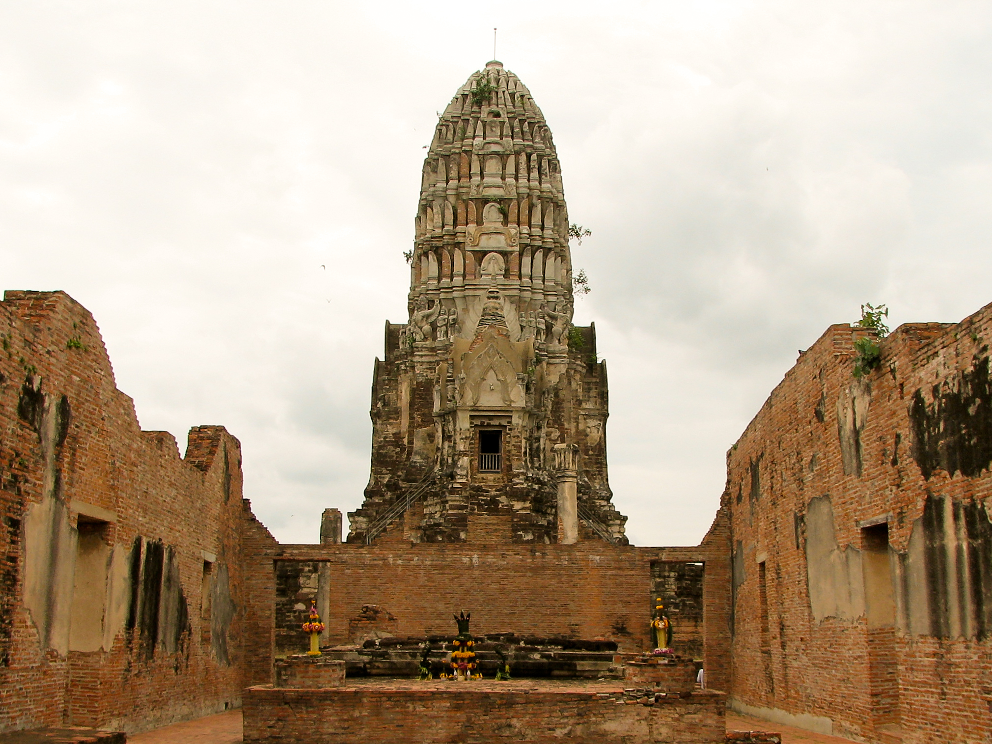 Wat Ratchaburana, Ayutthaya, Thailand